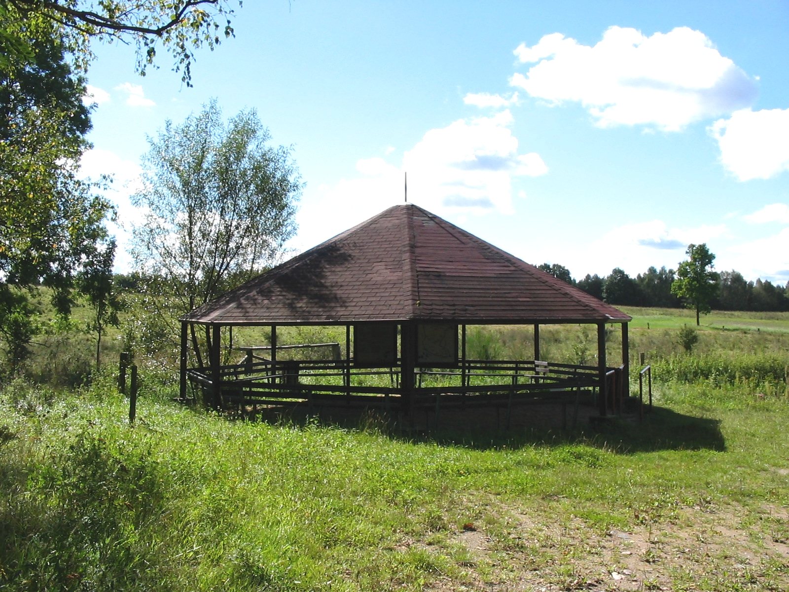 Place of the abandoned village Ruhn south of the hill Ruhner Berg in Mecklenburg-Vorpommern, Germany